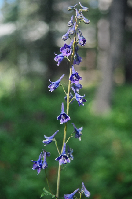 Larkspur, or tall delphinium (Delphinium glaucum) produces spike-like clusters of blossoms from July to August. This is one of the tallest wildflowers, capable of reaching two metres in height. Larkspur is poisonous, particularly when young, and the seeds are extremely toxic. Cattle deaths are commonly associated with this plant. Sheep, however, are immune to the poison, and are often used to control larkspur. 2004 D. Windrim Captioned As { }